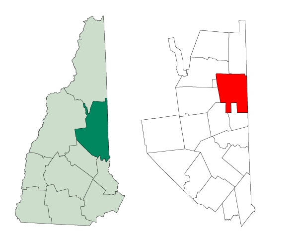 Created from Boundary/Border Outline Files of the Libre Map Project which held a BY-SA creative commons license. Data origionally from 2000 US Census boundary data.